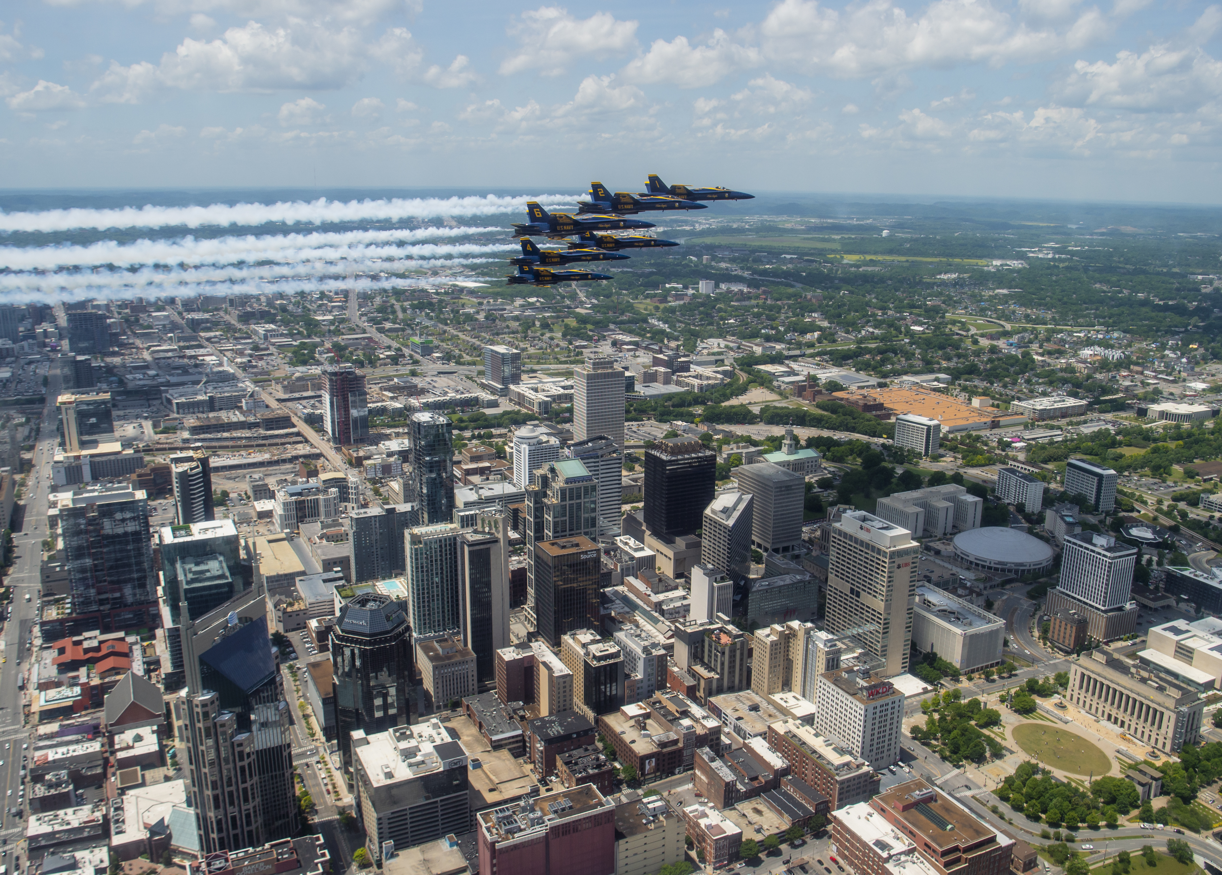 NASHVILLE (May 14, 2020) The U.S. Navy Flight Demonstration Squadron, the Blue Angels honored frontline COVID-19 first responders and essential workers with formation flights over Nashville and Little Rock on May 14, 2020. (U.S. Navy photo by Mass Communication Specialist 2nd Class Cody Hendrix/Released)200514-N-YO638-1303